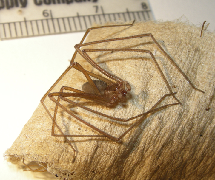 Loxosceles caribbaea. Brown Recluse spider relative from Puerto Rico.